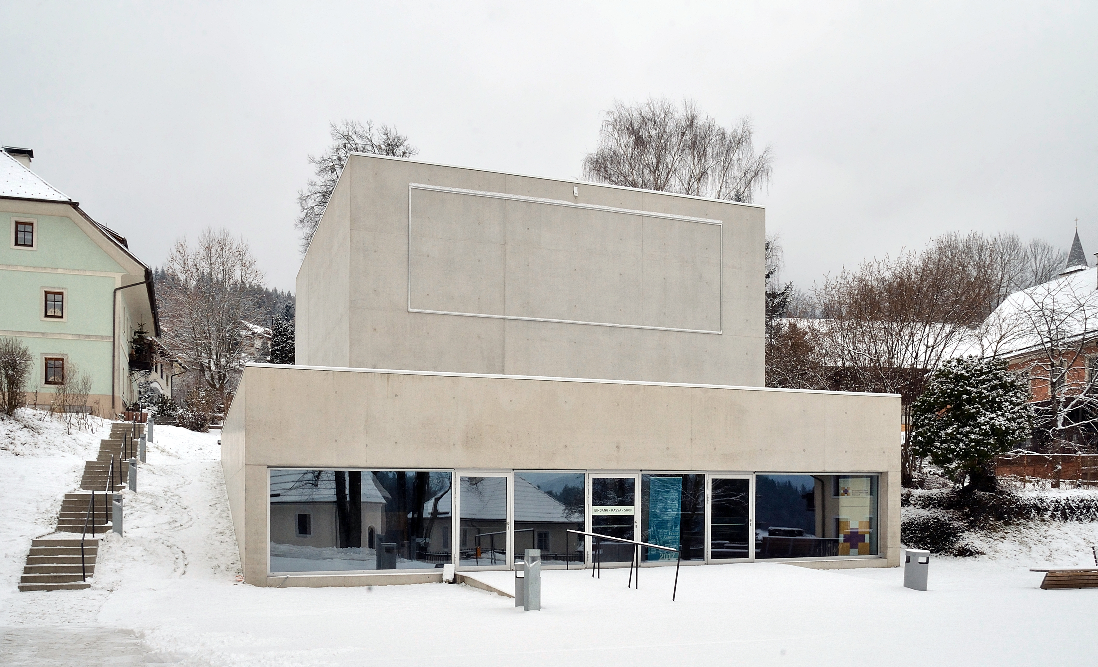 The new diocesan museum Fresach, Carinthia, was built in 2011.